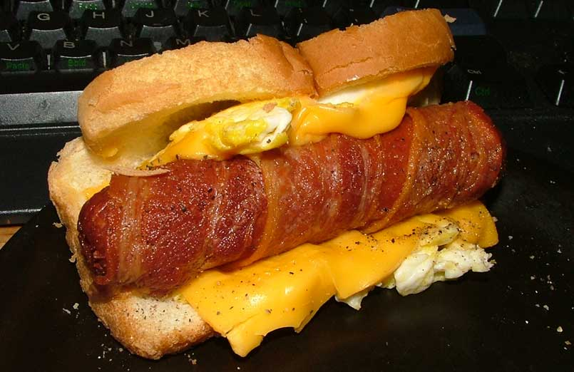 Jersey breakfast dog, taken by me